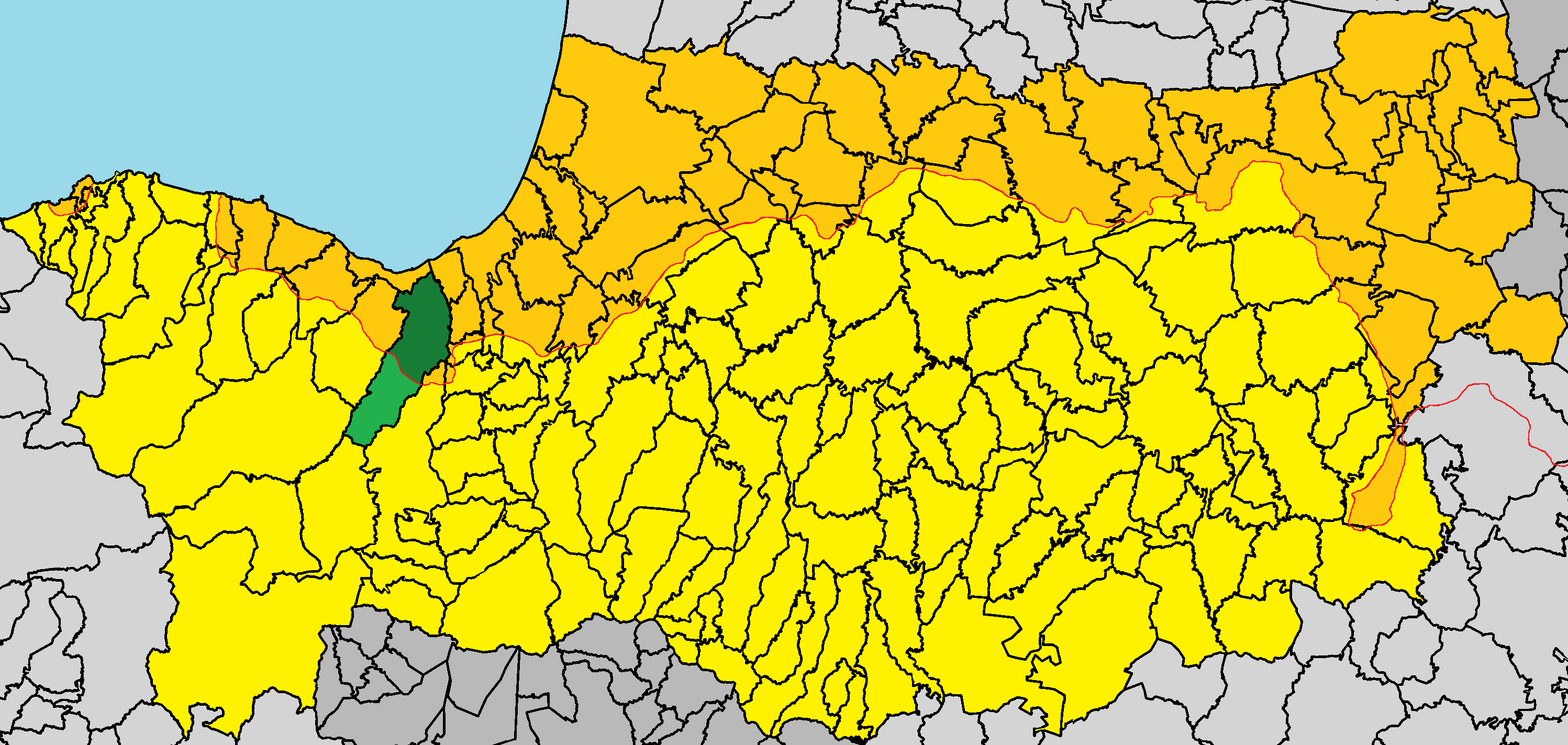 Lefka in Nicosia District (de jure).